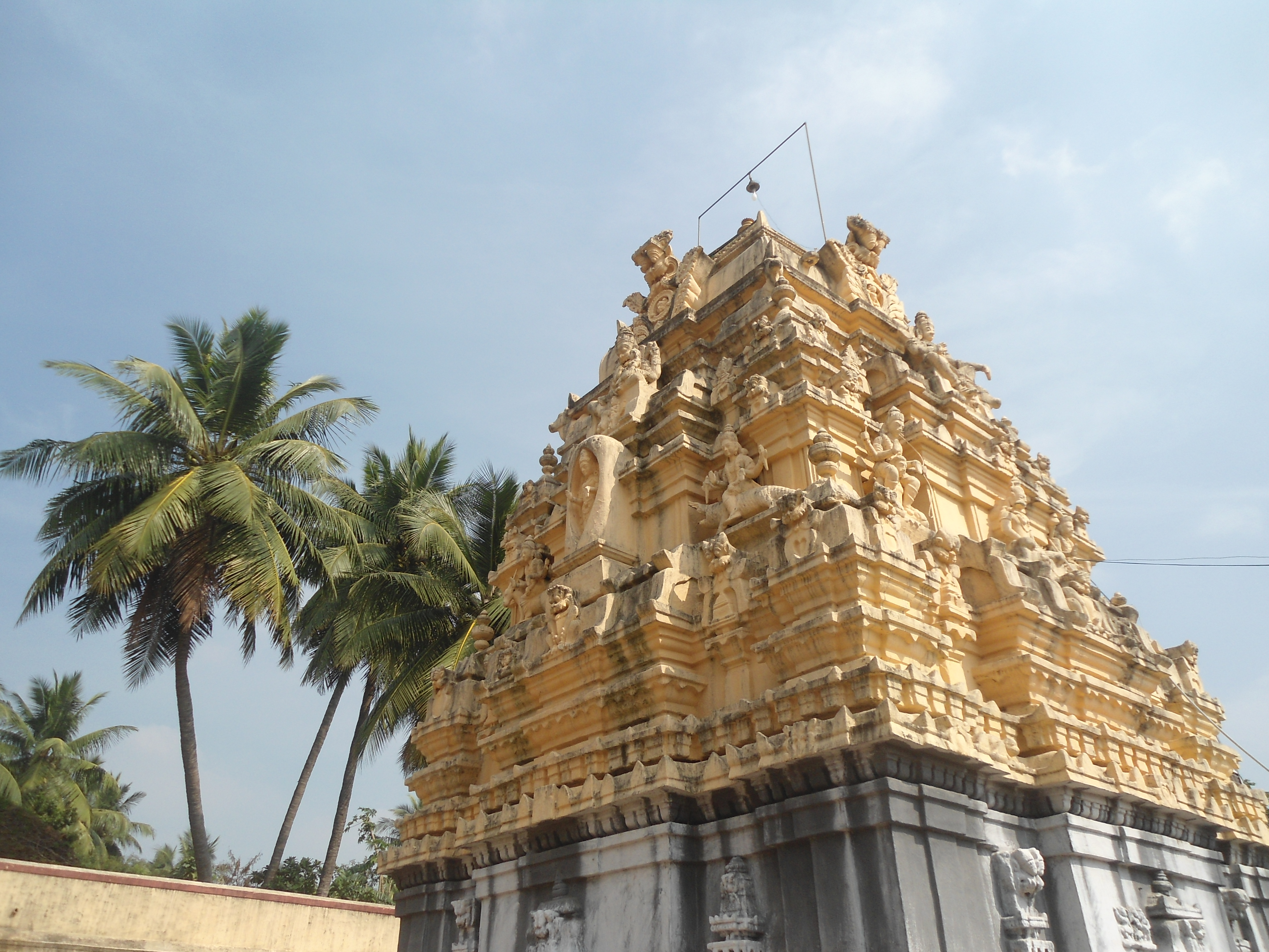 Kotipalli Shiva Temple, Kotipalli, East Godavari